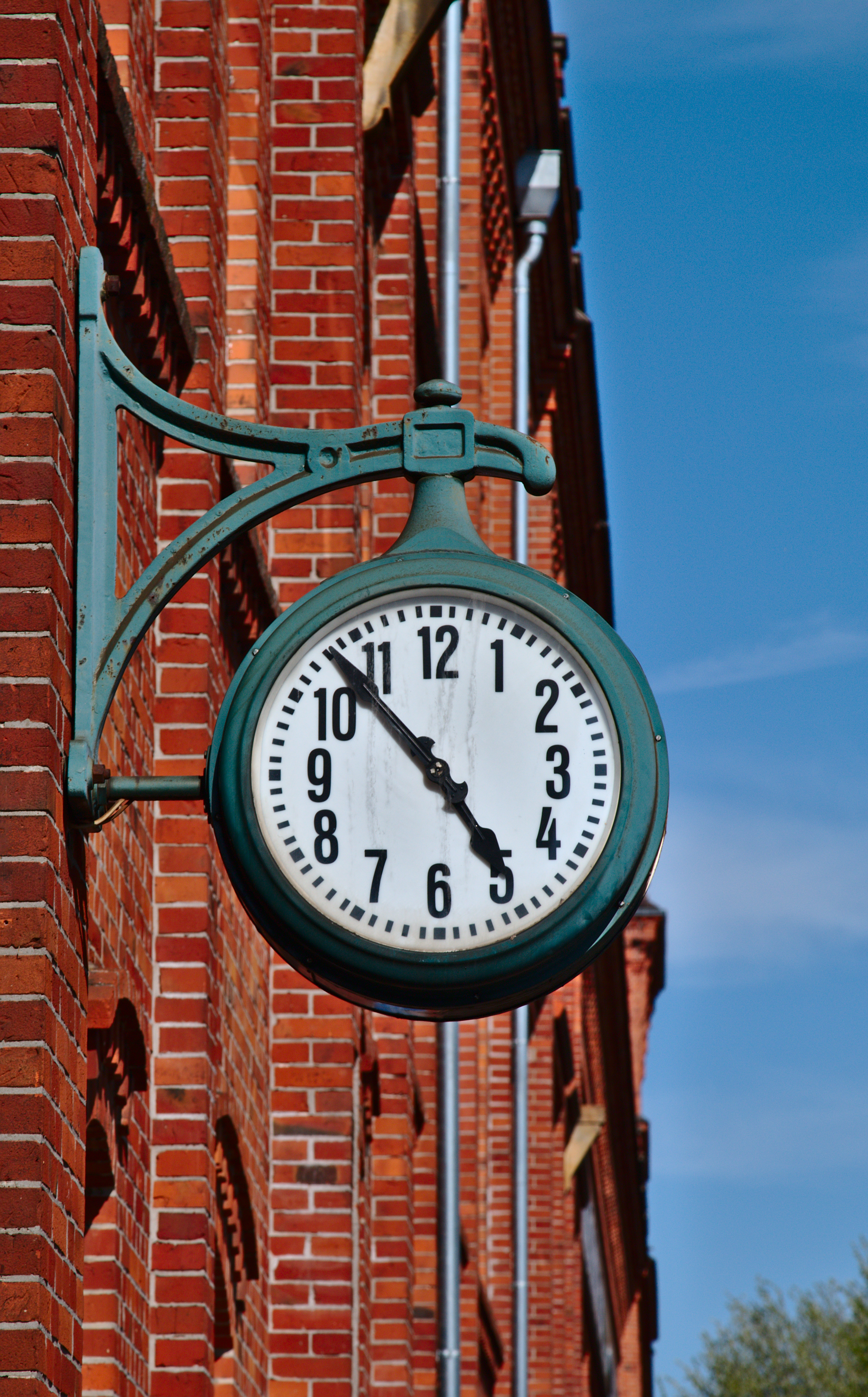 Clock by the main entrance gate of the former Nordwolle wool mills, Delmenhorst city, Lower Saxony, Germany.